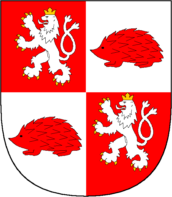 Coat of arms of the Czech town of Jihlava